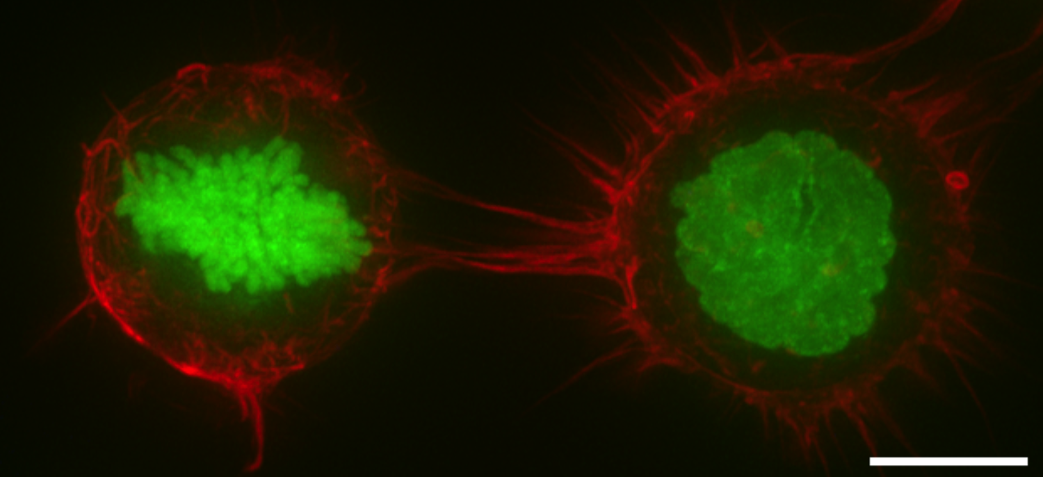 HeLa cells expressing Histone H2B-GFP fixed and stained for F-actin with rhodamine-phalloidin